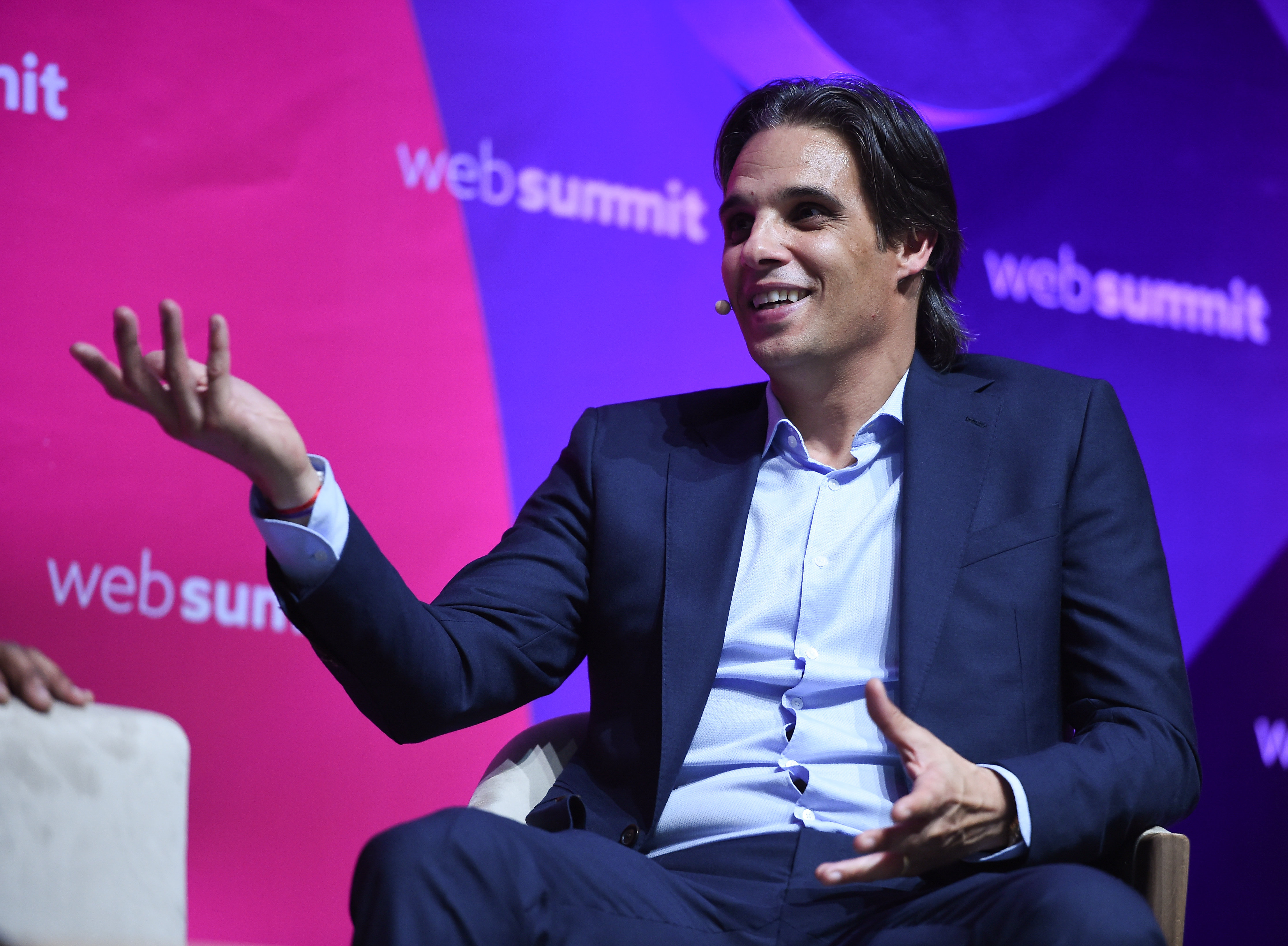 7 November 2017; Nuno Gomes, Ambassador, UEFA on the SportsTrade Stage during the opening day of Web Summit 2017 at Altice Arena in Lisbon. Photo by Cody Glenn/Web Summit via Sportsfile